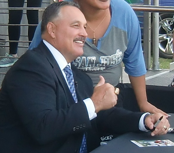 David Diaz-Infante poses for a photo with a fan outside Spartan Stadium for San Jose State University homecoming festivities on October 17, 2015.